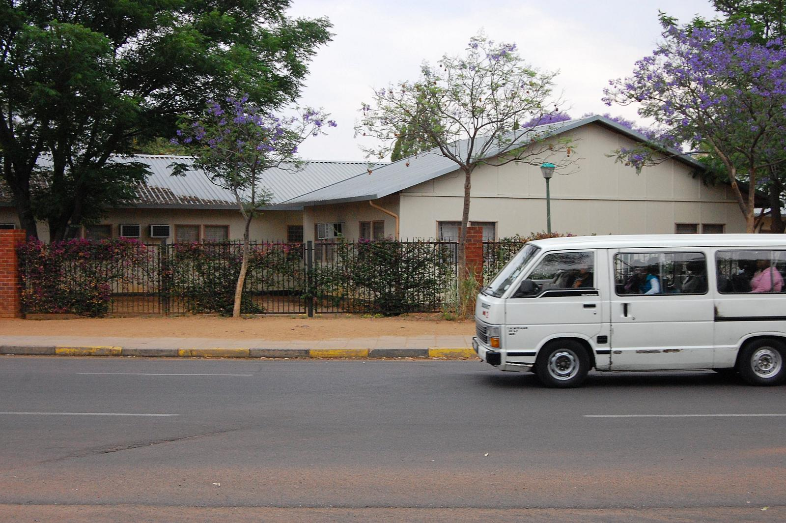 Kombi (shared taxi) that transports the people of Gaborone around the city